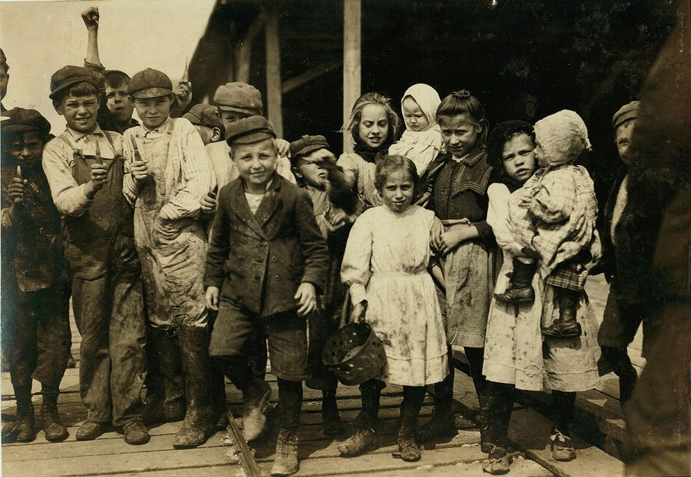 All these children (except babies) shuck oysters and tend babies at the Pass Packing Co. I saw them all at work there long before daybreak. Photos taken at noon in the absence of the Supt. who refused me permission because of Child Labor agitation. Factory belongs to Dunbar, Lopez, Dukate Co. Location: Pass Christian, Mississippi.